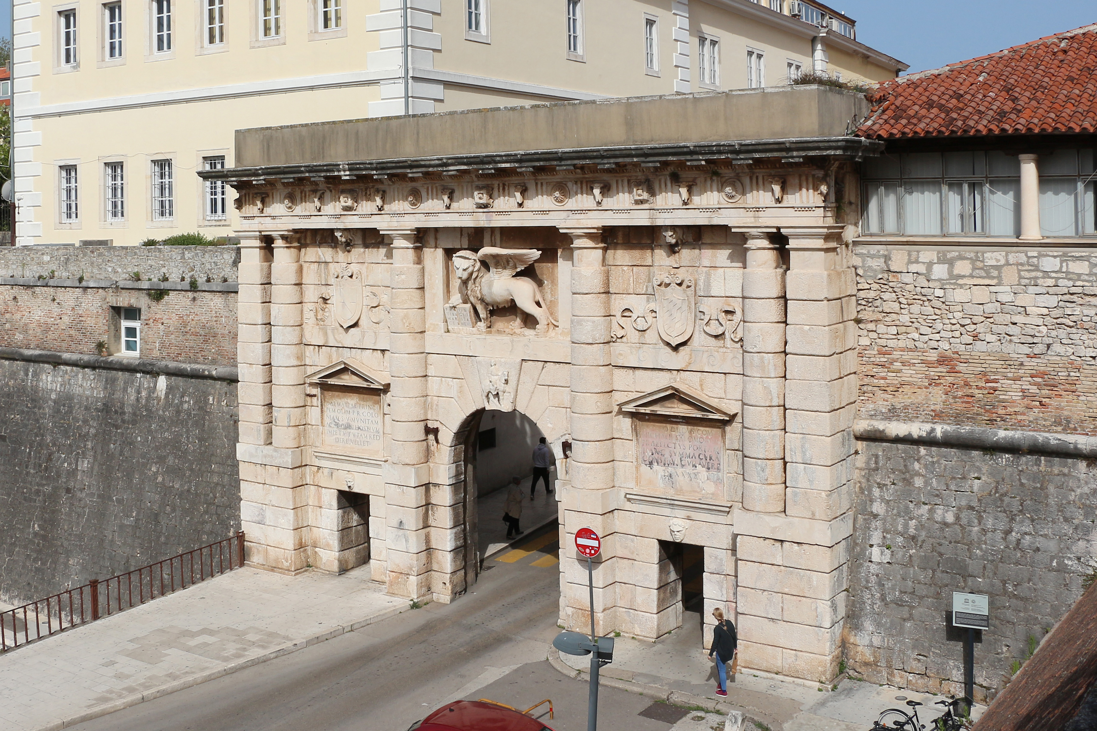 Land Gate, Zadar, Croatia